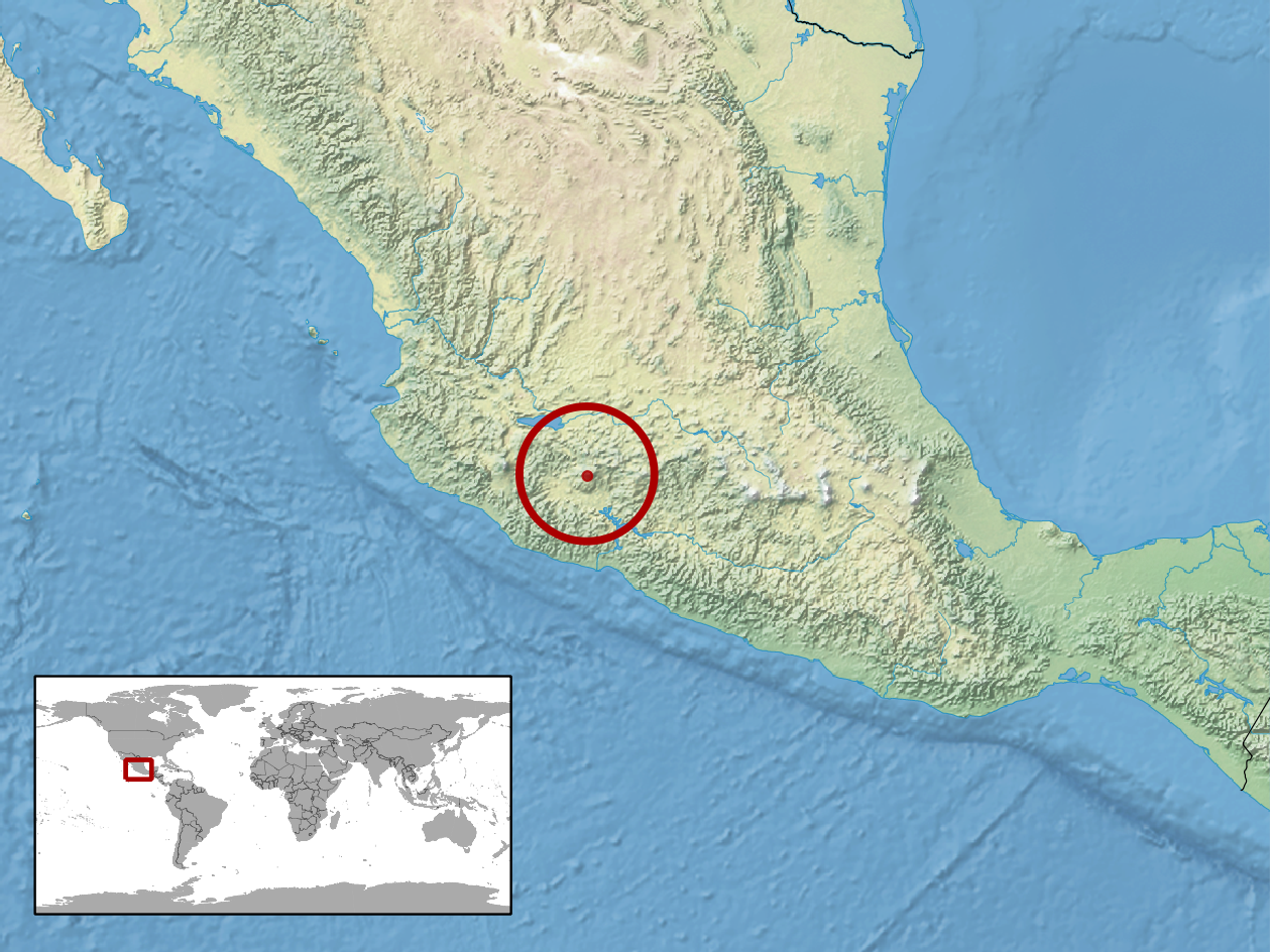 geographic distribution of Crotalus tancitarensis (Native: Mexico)